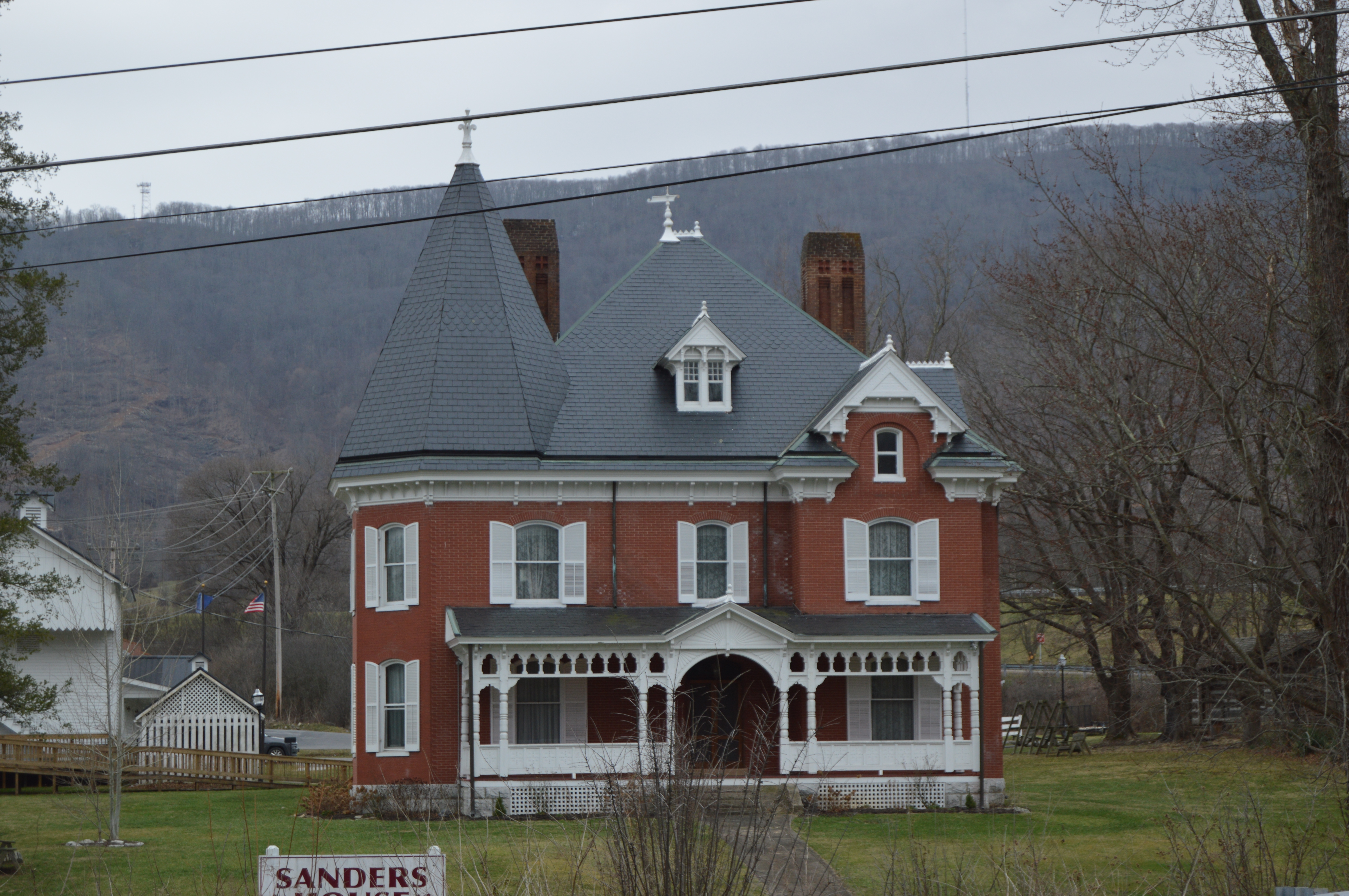 Front of the Walter McDonald Sanders House, located on College Avenue in Bluefield, Virginia, United States. Built in 1894, it is listed on the National Register of Historic Places.